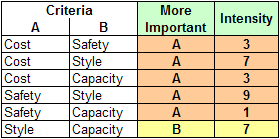 Part of a series of images to illustrate an article on the Analytic Hierarchy Process